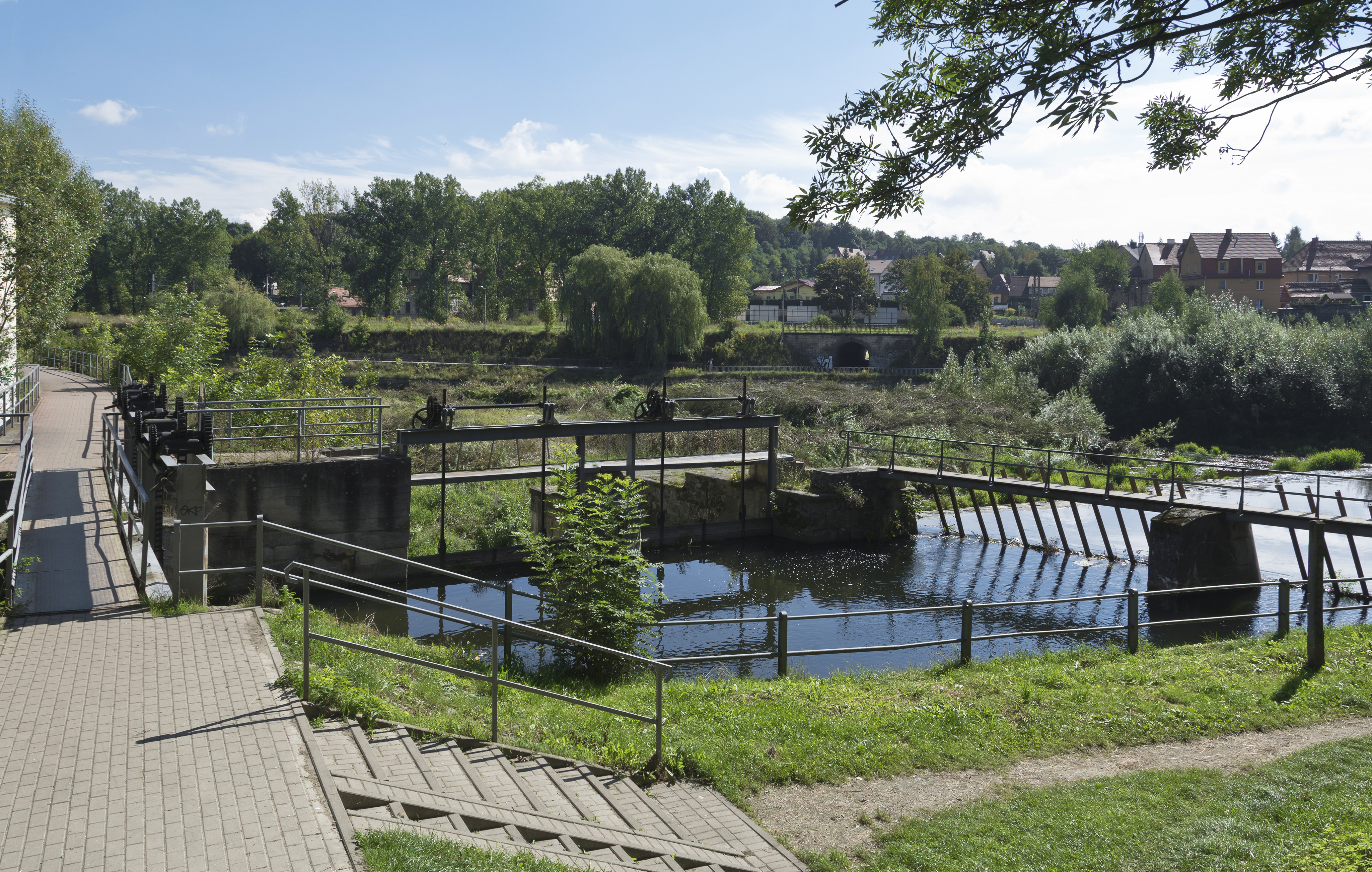 Wer on the Nysa Kłodzka in Kłodzko